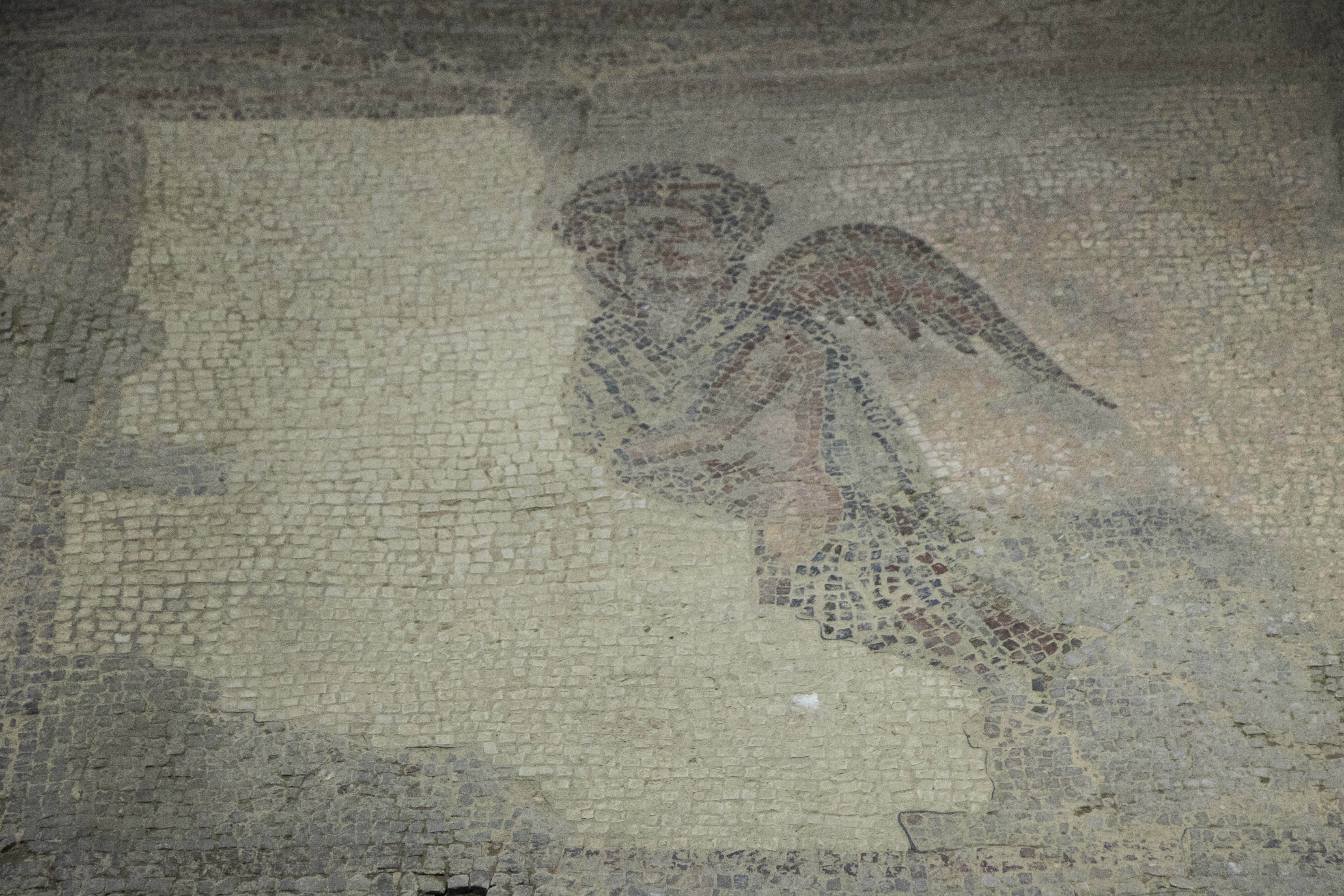 Dzalisi - mosaic detail